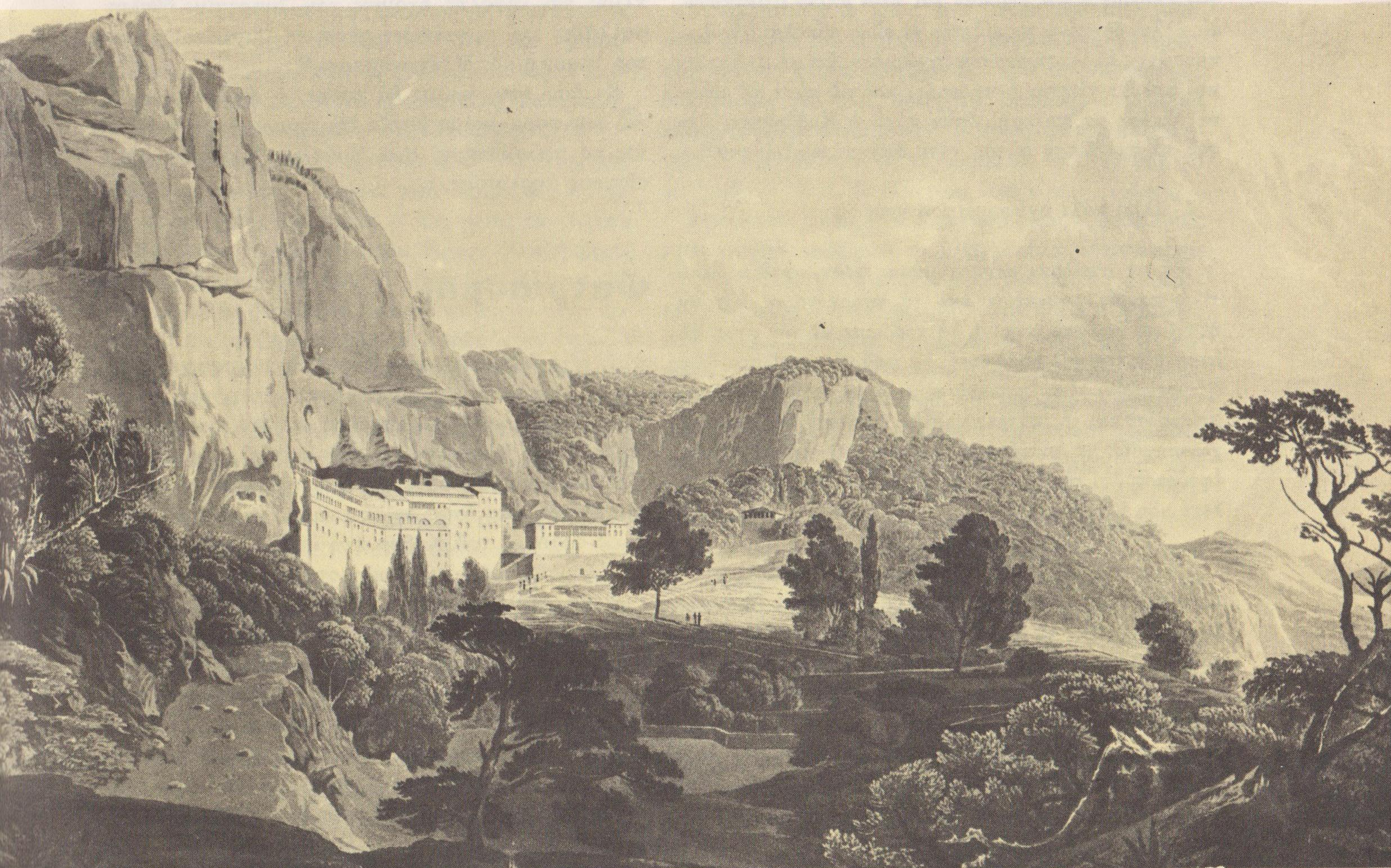 Image of Mega Spileo monastery, Dodwell «Views in Greece from drawings», 1801-1806